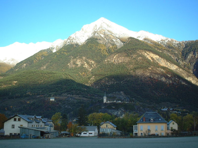 Pointe Fine Mountain, Alps, France. I made this photo in october 2004.